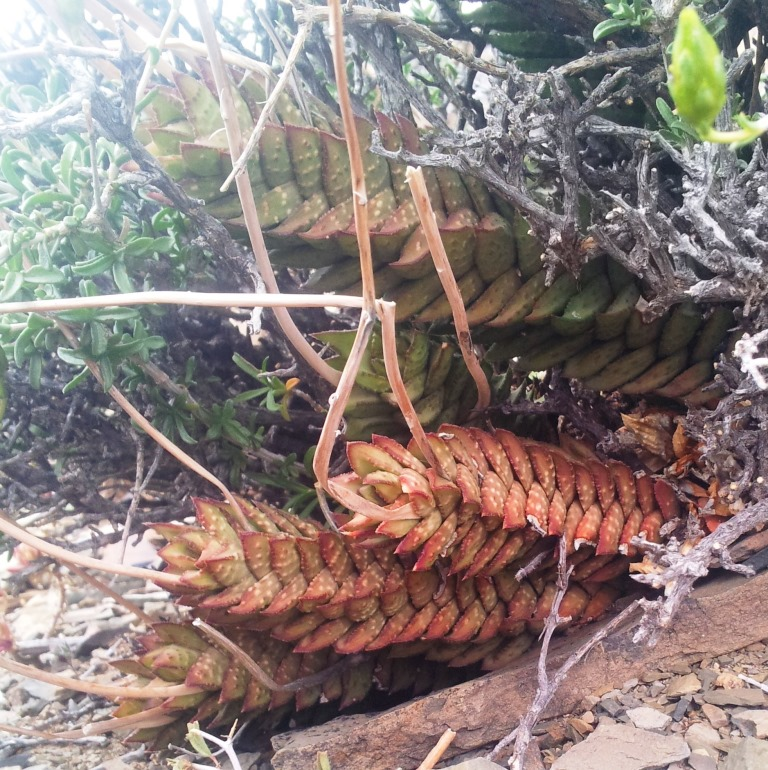 Astroloba bullulata - Laingsburg South Africa